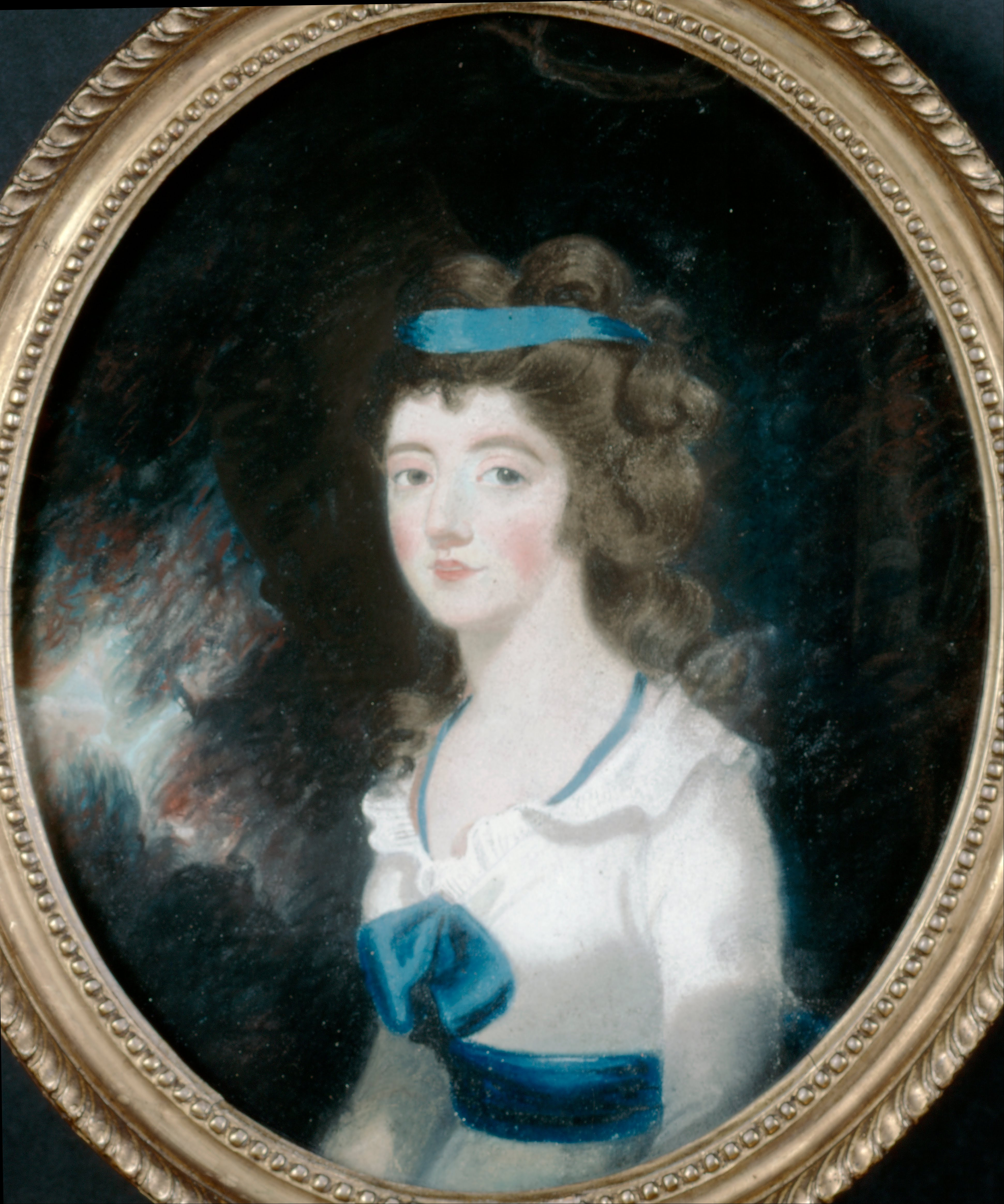 Maria Linley (1763-1784) was the third daughter of Thomas Linley of Bath. She was a singer, gaining renown as a soprano when she died aged 21. If the portrait was painted in 1784, Lawrence, who was entirely self-taught, was only 15.